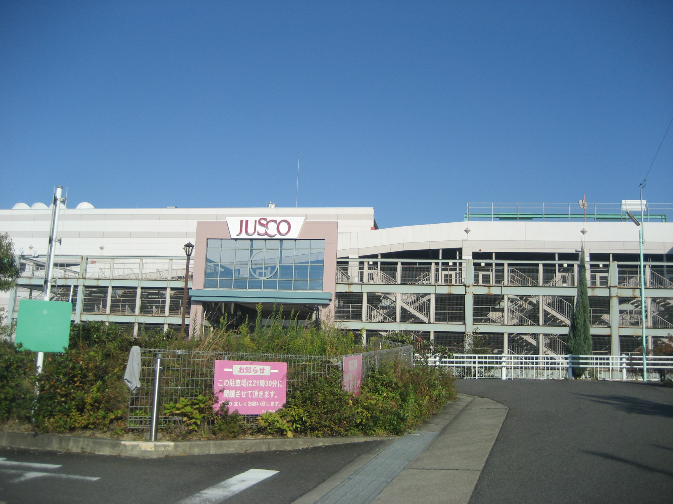 AEON Moriyama Store (Former JUSCO Moriyama Store)